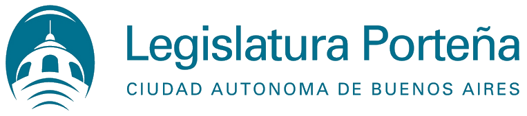 The complete logo of Buenos Aires City Legislature, with transparent background.